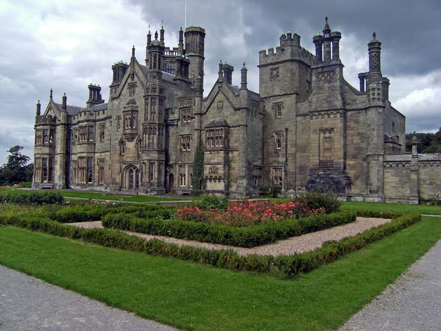 Margam Castle The imposing and reputedly haunted Margam Castle, built between the years 1830 and 1840 for the Talbot family, is situated at the heart of Margam Country Park. This Tudor Gothic grade 1 listed mansion was featured by William Henry Fox Talbot in some of his calotype photographs, which were among the earliest photographs taken in Wales.